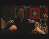 Directing actors